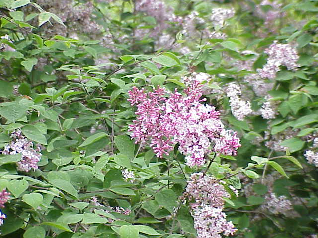 Species: Syringa pubescens subsp. julianae Family: Oleaceae Image No. 1